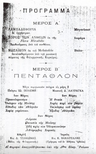 Programme of a concert at the Olympics 1896, March 25